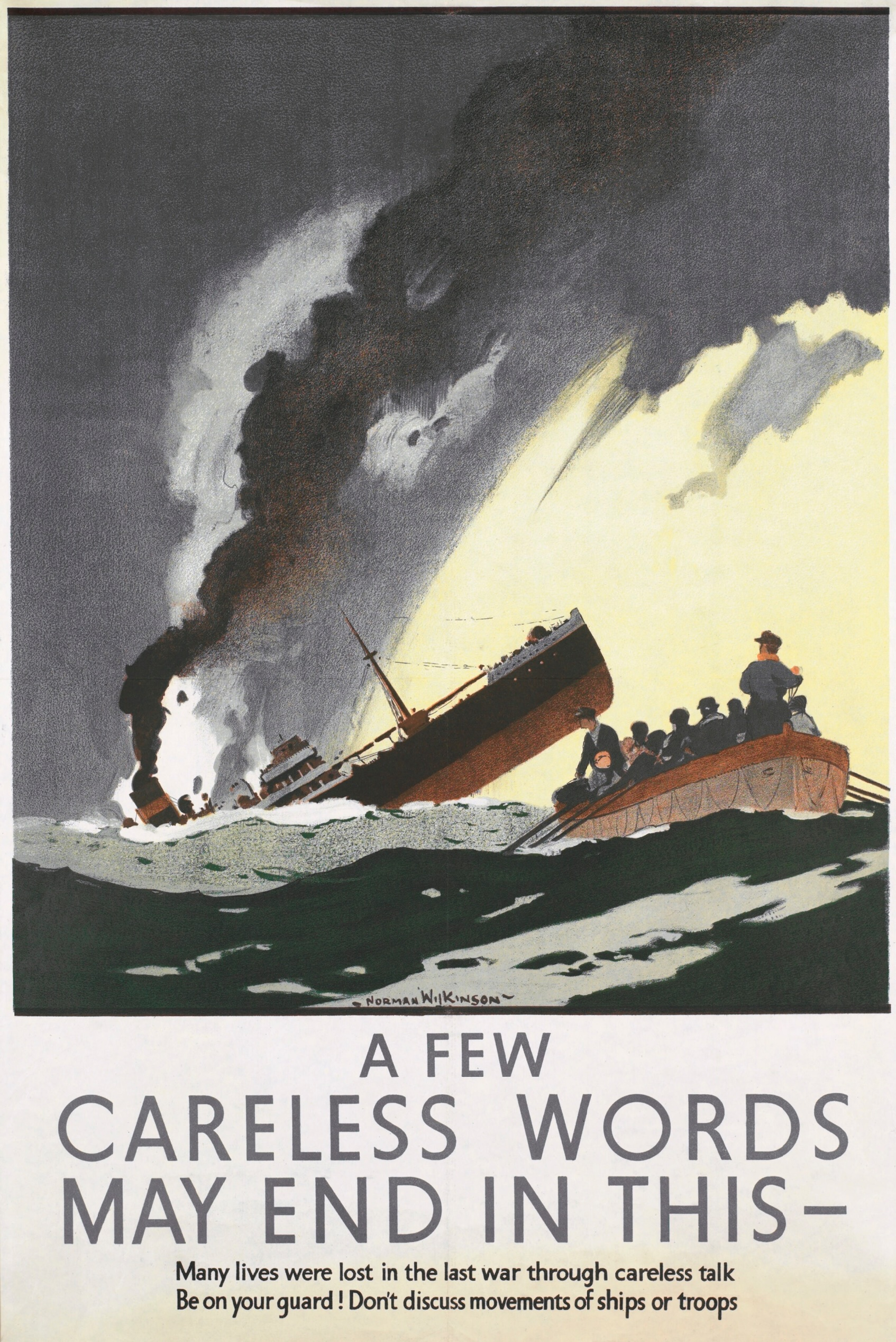 A Few Careless Words May End in this whole: the image occupies the upper three-quarters. The title is separate and positioned in the lower quarter, in grey. The text is separate and placed across the bottom edge, in black. The title and text are set against a white background. image: a steamer sinks, aft first, in choppy water, with black smoke rising from its funnel. From a lifeboat in the foreground right, the ship's crew stare back at the stricken vessel. text: NORMAN WILKINSON A FEW CARELESS WORDS MAY END IN THIS - Many lives were lost in the last war through careless talk Be on your guard! Don't discuss movements of ships or troops Printed for H.M. Stationery Office by Greycaine Ltd., Watford and London. T 51 - 5667.